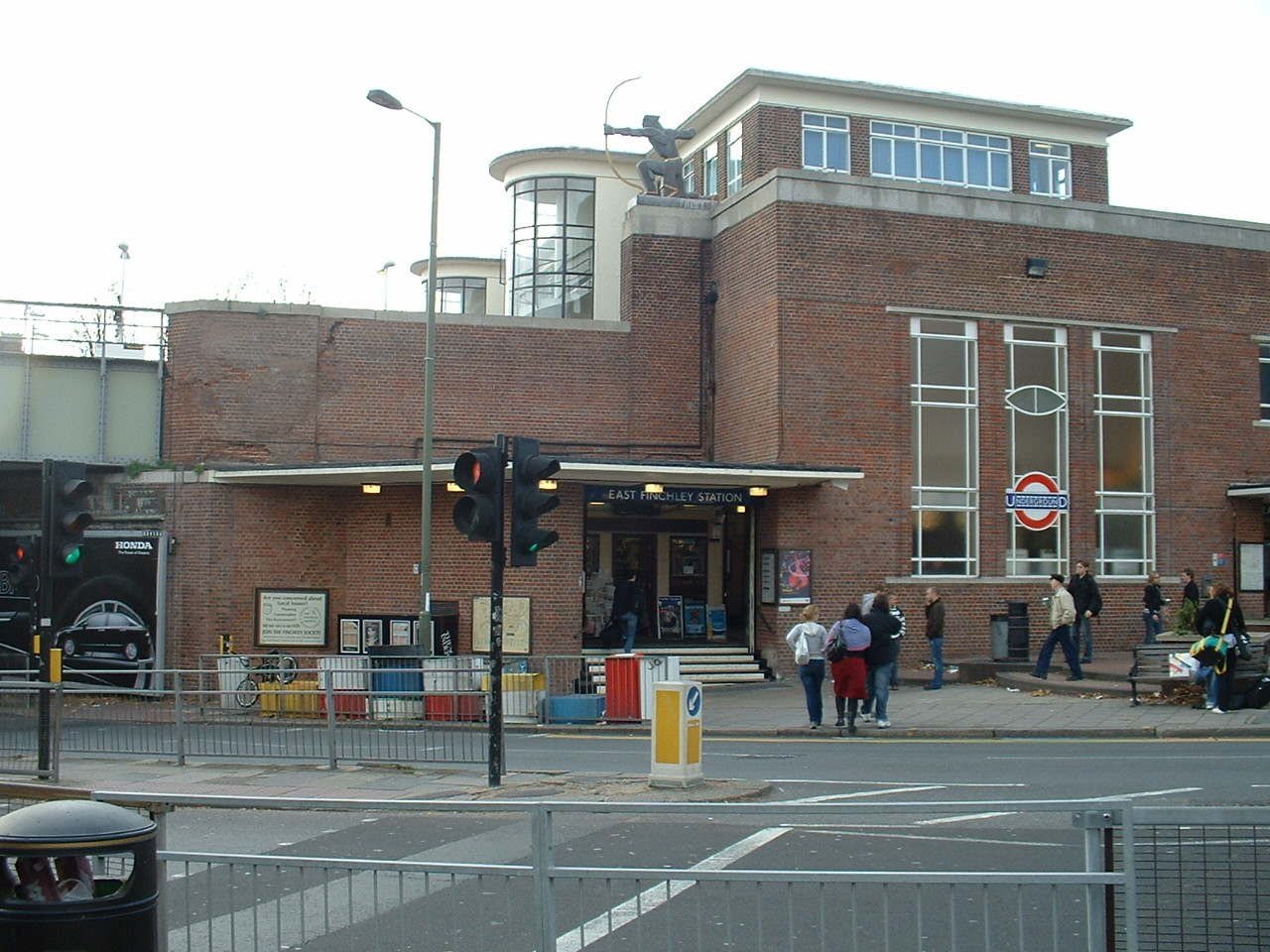 East Finchley tube station main entrance on High Road East Finchley. Sunil060902, 10th November 2007.